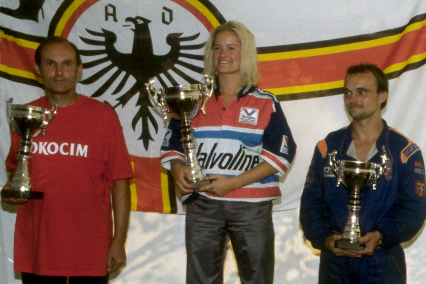 Marit Strømøy from Norway (center) at pricegiving of European Championship 1999 in class S-550 at Magdeburg (Germany)